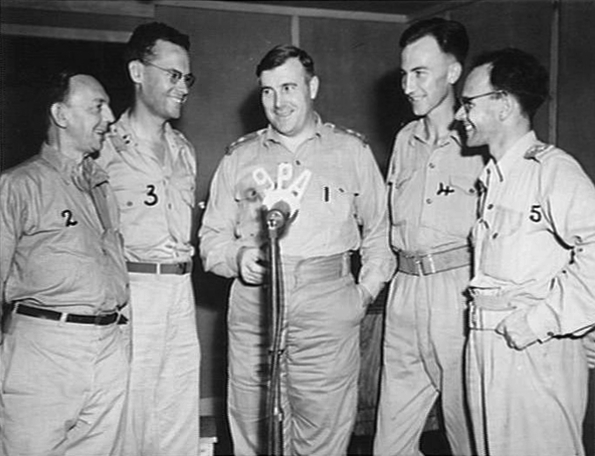 Port Moresby, Papua 1944-02-26. The General Manager, Australian Broadcasting Commission, Lieutenant Colonel C.J.A. Moses (1) with members of the staff of "9PA", the Australian Broadcasting Commission's New Guinea regional station. Identified personnel are: Mr. S.H. Witt, Supervising Engineer, (Research), Postmaster-Generals Department (2); Captain E.L. Tidwell, United States Army, Field Supervisor Of Radio (3); Mr. C.G. Elworthy, Engineer-In-Charge of Installation (4); Captain R. Wood, Manager and Station Supervisor (5).